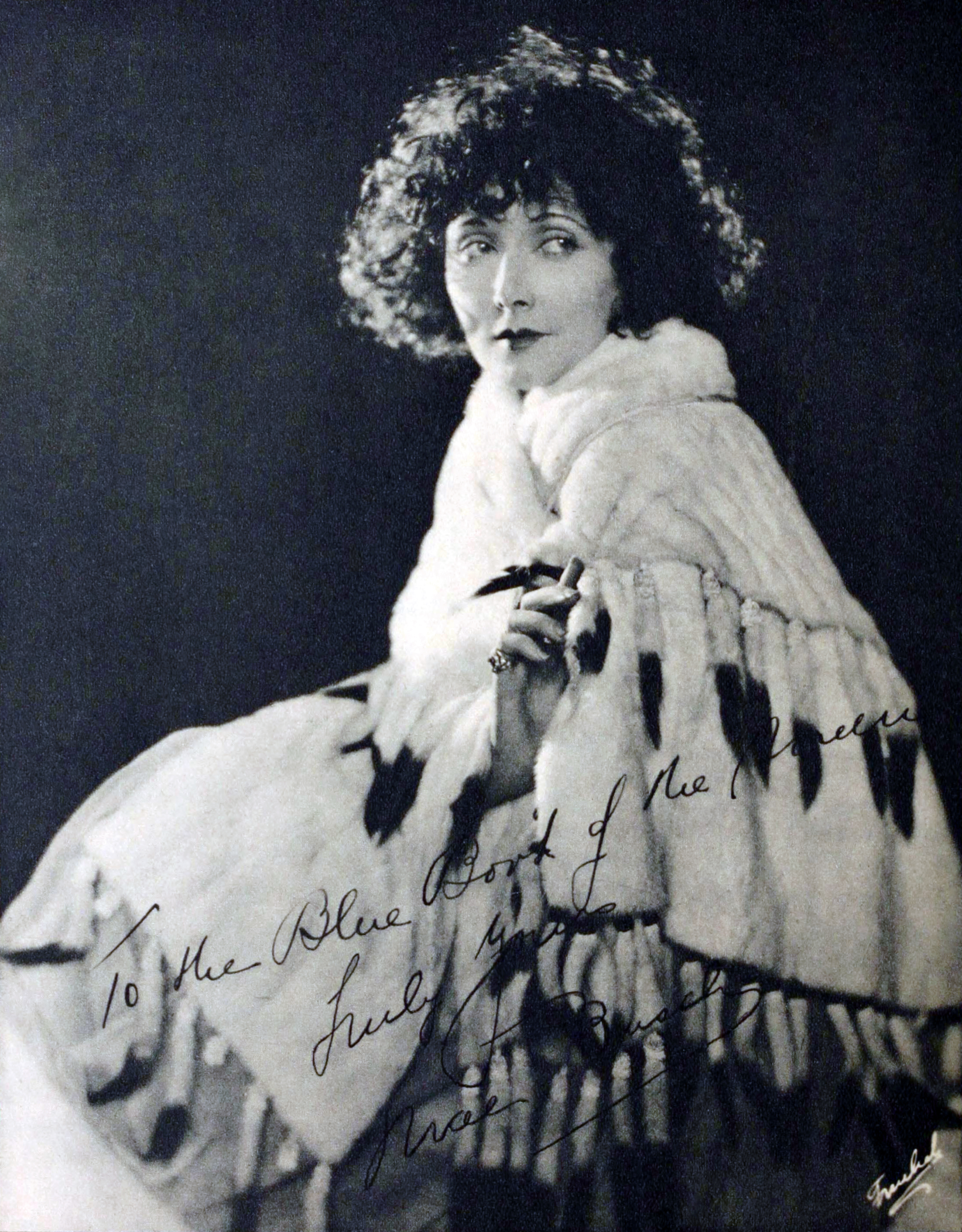 Publicity photo of Mae Busch from The Blue Book of the Screen by Ruth Wing, editor